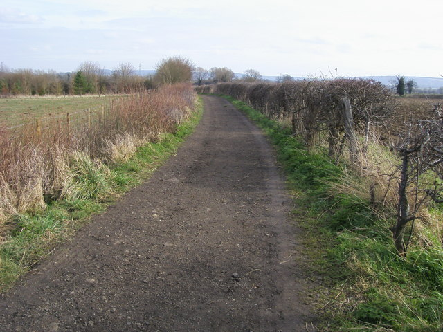 North Bucks Way North Bucks Way heading away from Sedrup towards Bishopstone